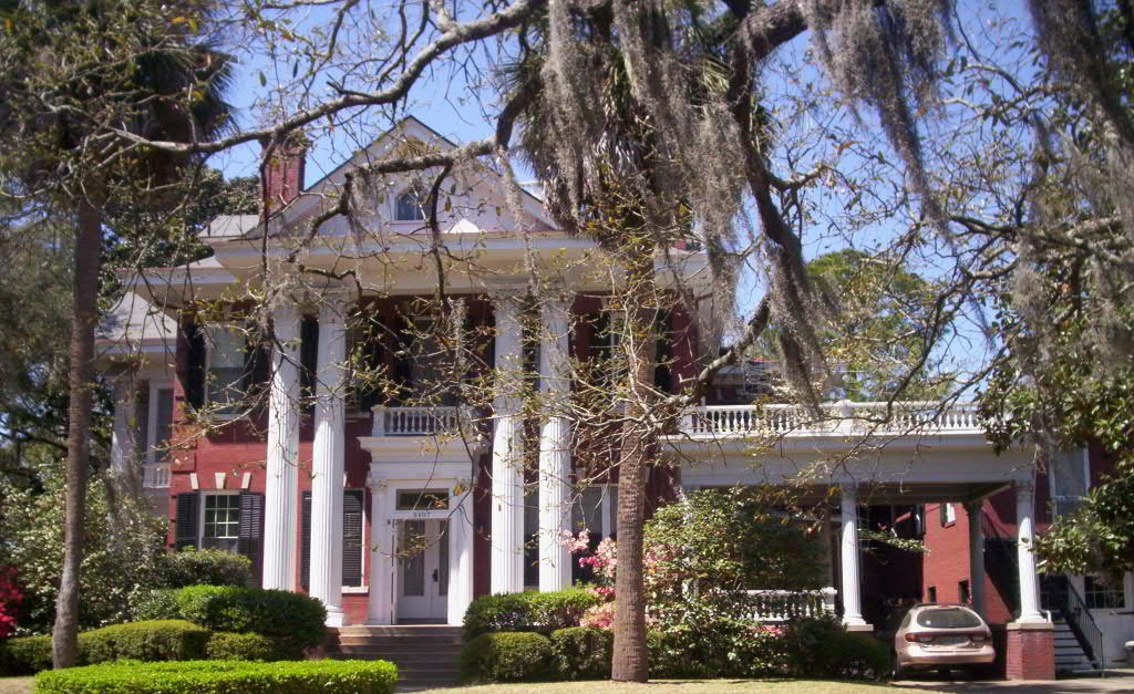 The photo shows the Myrick Family home located at 2807 Abercorn Street in Savannah, GA, built in 1914